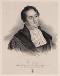 Gerrit (Gerard) Moll (Amsterdam, 18 January 1785 - Amsterdam, 17January 1838) was a Dutch mathematician, physicist and astronomer and professor and rector at Utrecht University.